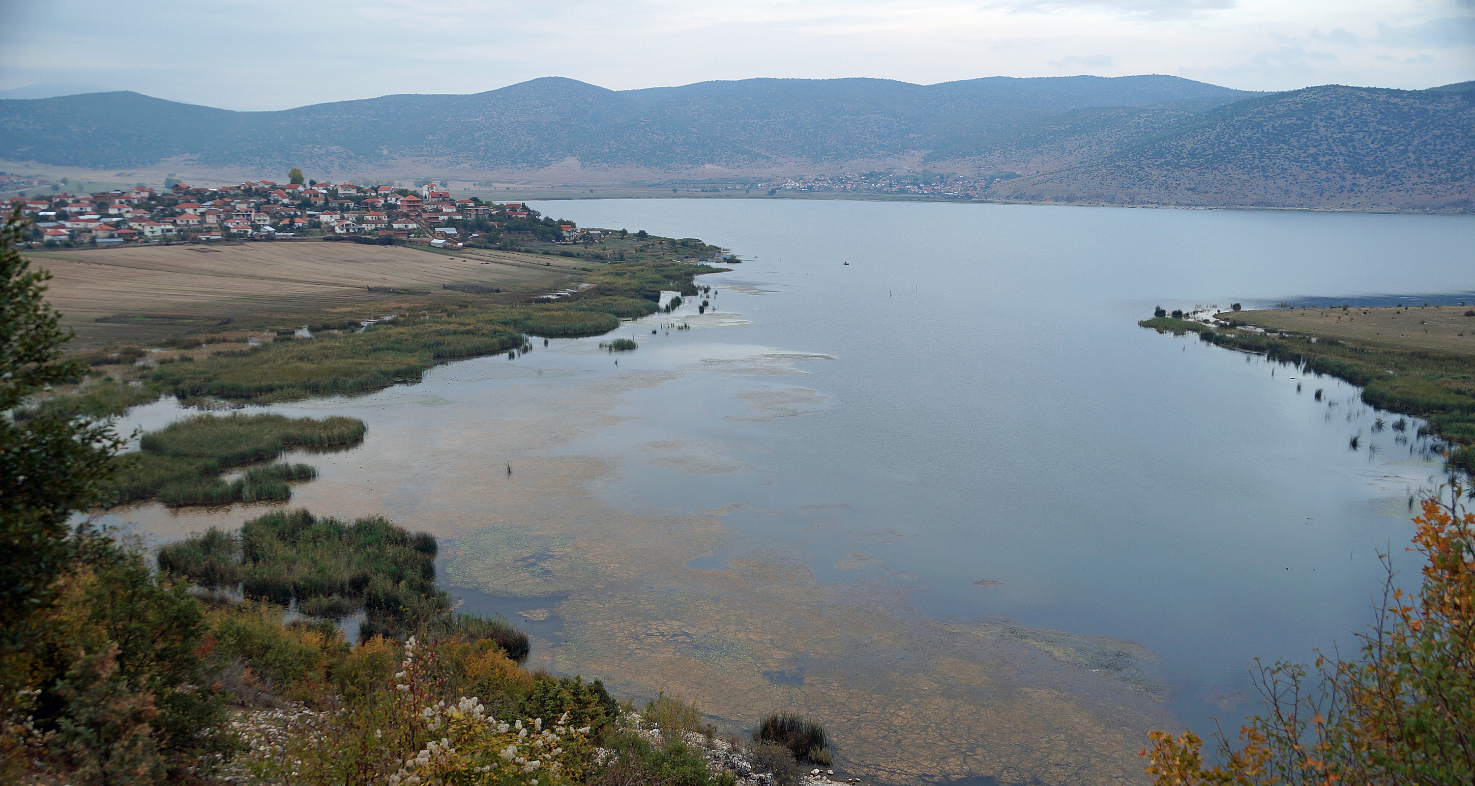 The village Dolna Gorica/Gorica e vogël in Albania at the shores of Lake Prespa. The village Tuminec/Kallamas in the background.